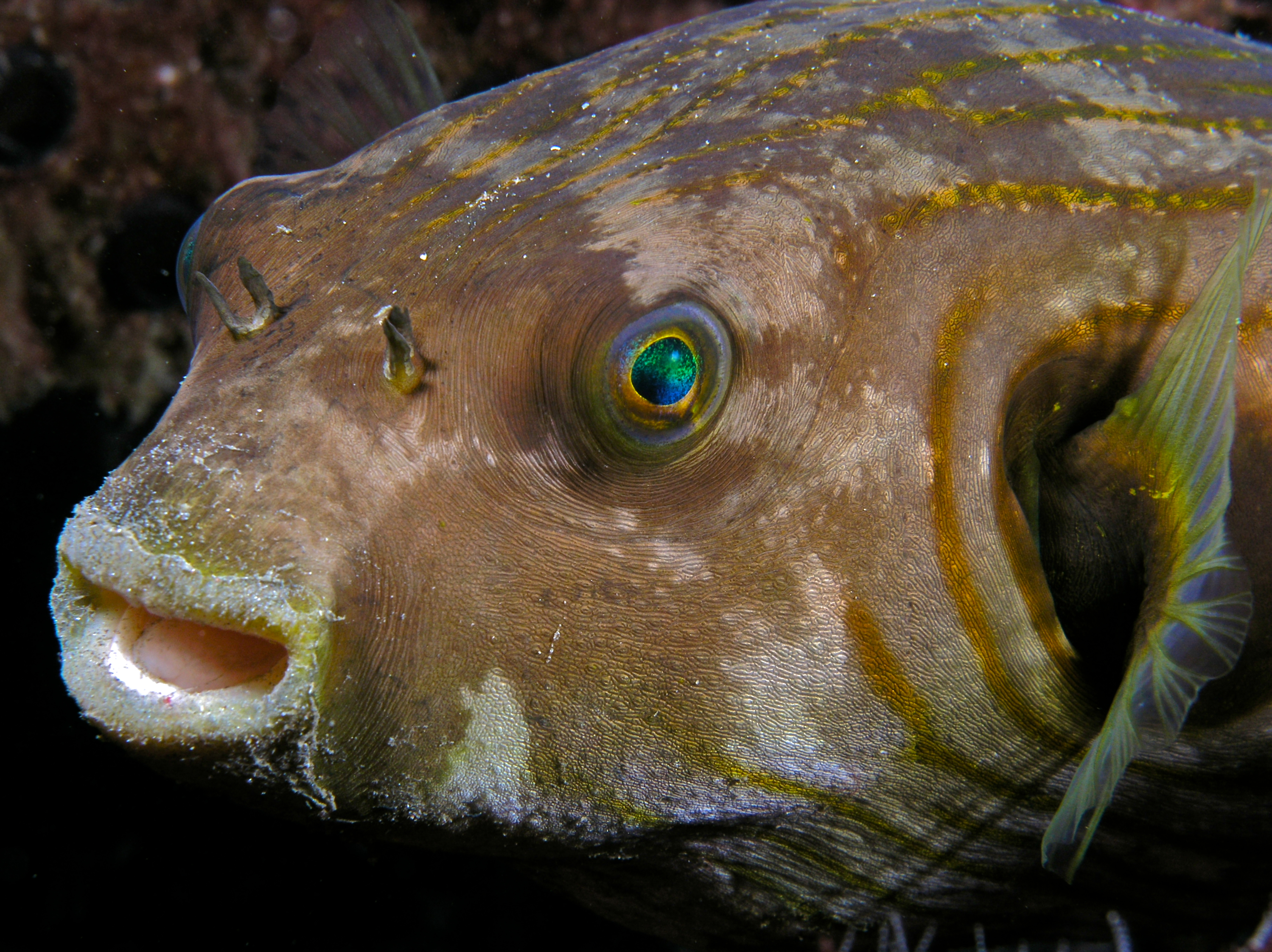 Arothron hispidus (Stars and stripes toadfish)